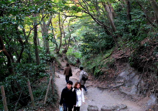 The Kewaizaka Pass of Kamakura's Seven Entrances